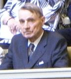 Mauno Koivisto, former President of Finland